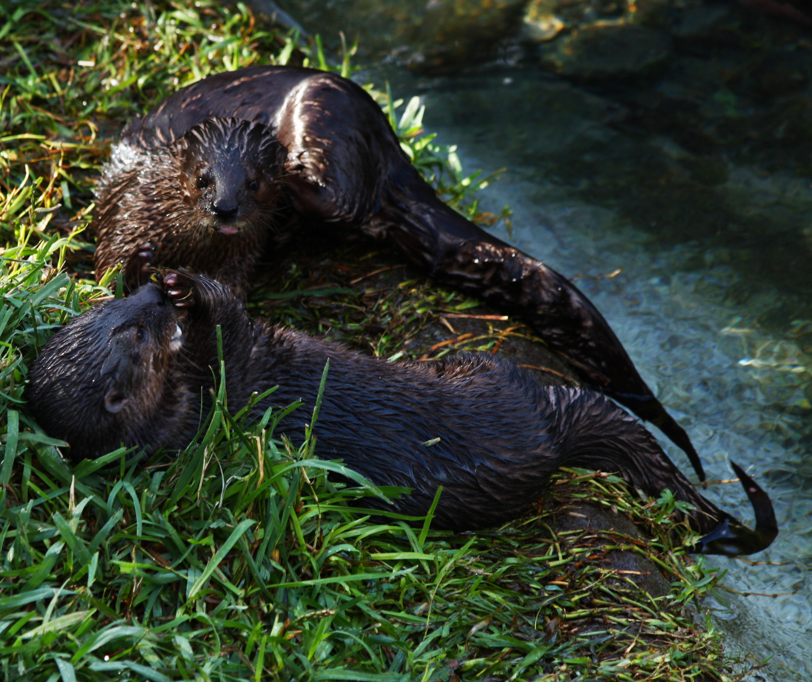 African Spot-necked Otters are native to Guinea-Bissau as well as many other nations of Africa.